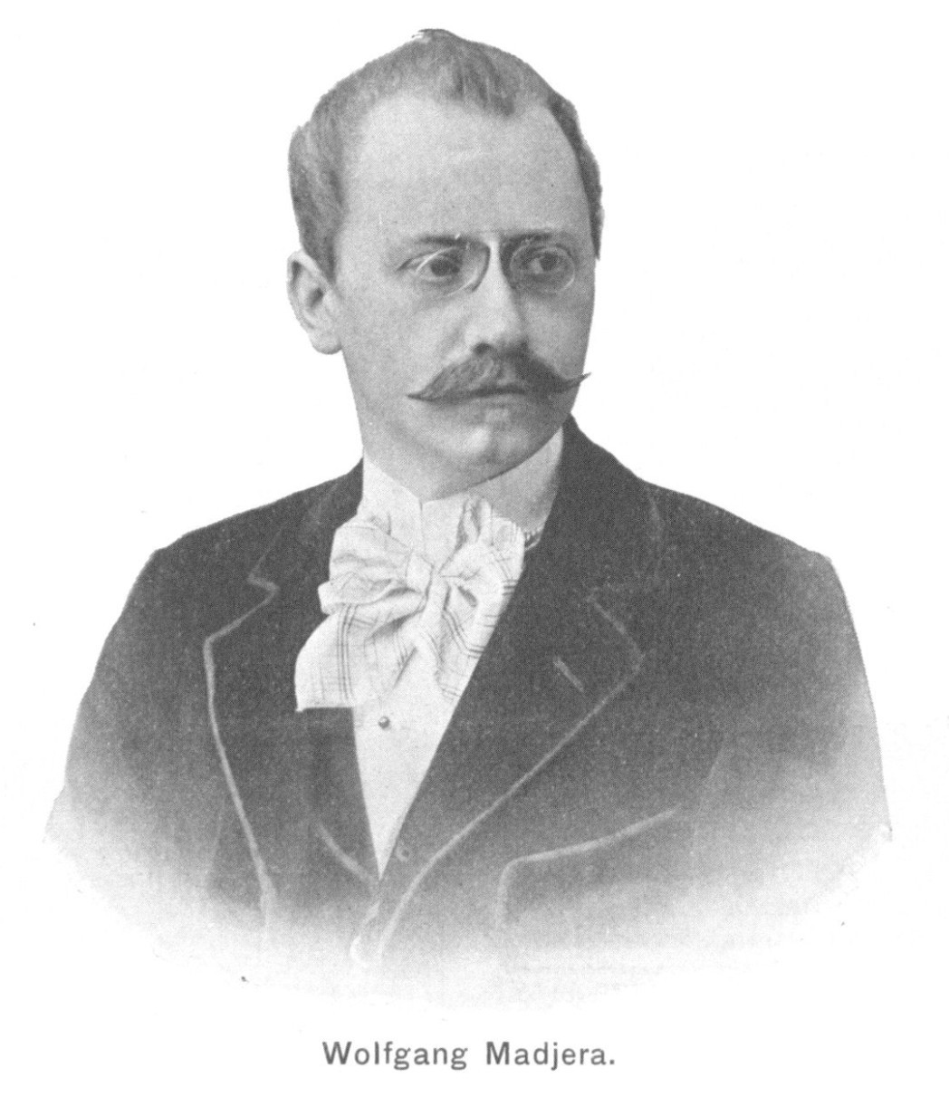 Portrait of Wolfgang Madjera (1868-1926), Austrian poet.